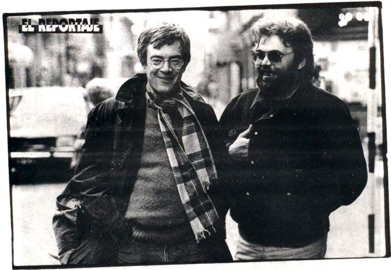 Argentinian cómic authors José Muñoz y Carlos Sampayo